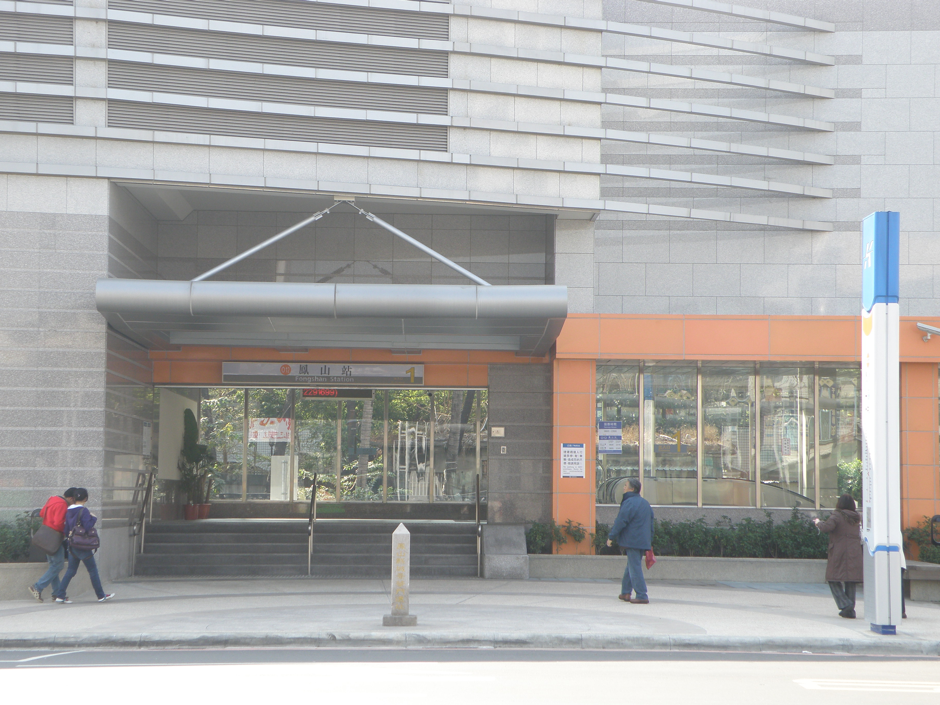 Exit No.1 of Fongshan Station, Kaohsiung Mass Rapid Transit.